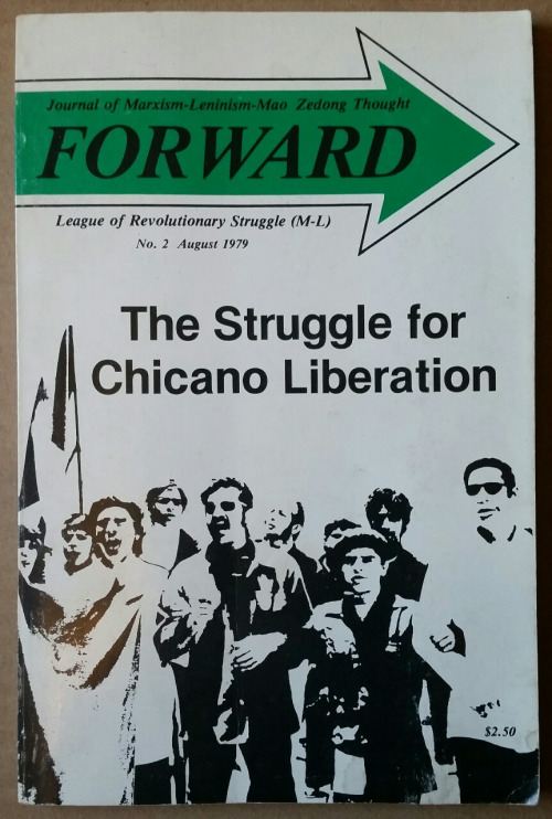 Chicano struggle